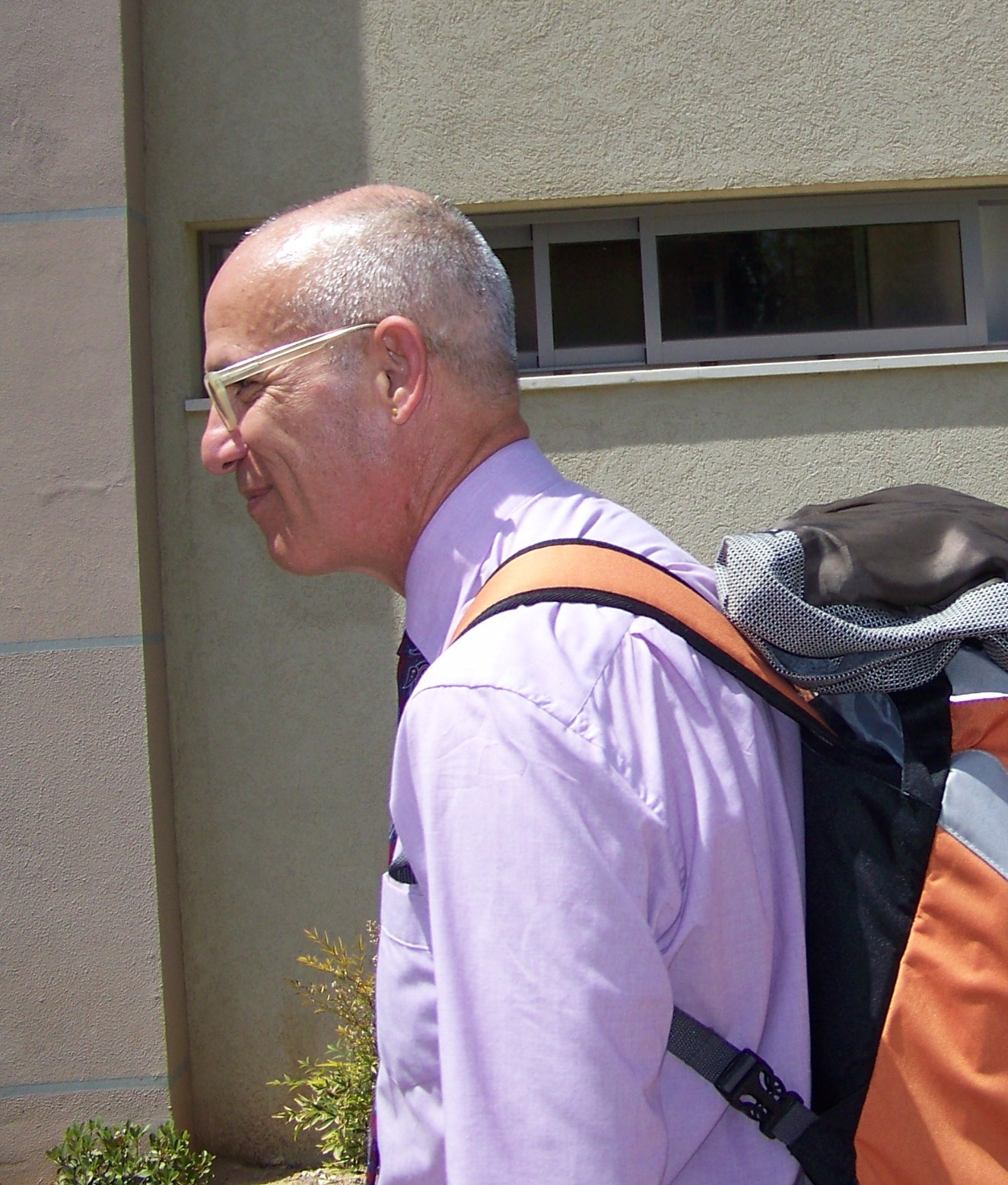 Benny Ziffer